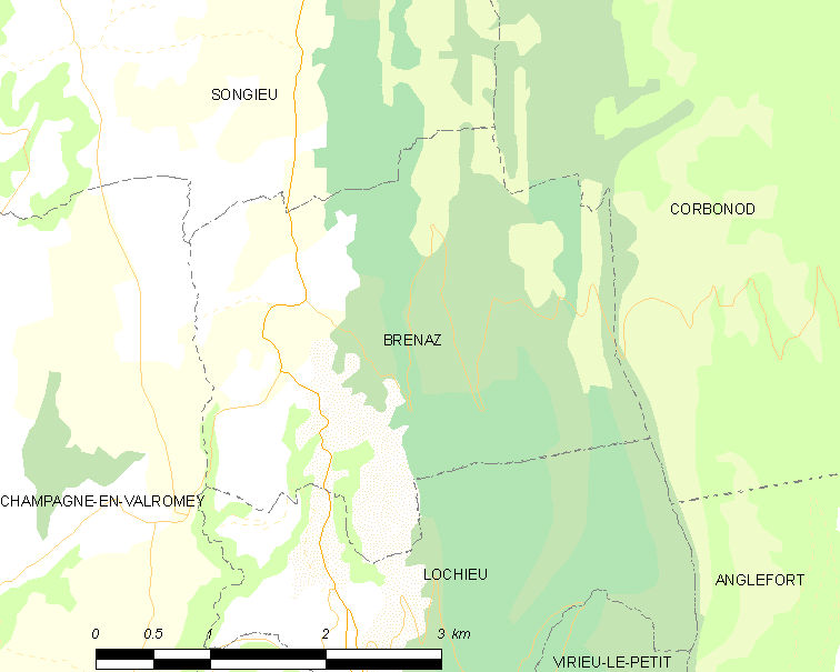 Map of French commune: Brénaz Map commune FR insee code 01059.png